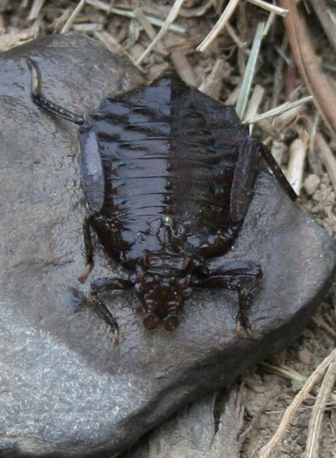 Found in the water at the beach area, then brought to shore for the photo shoot. This guy was very broad and flat, perhaps 3 cm long.